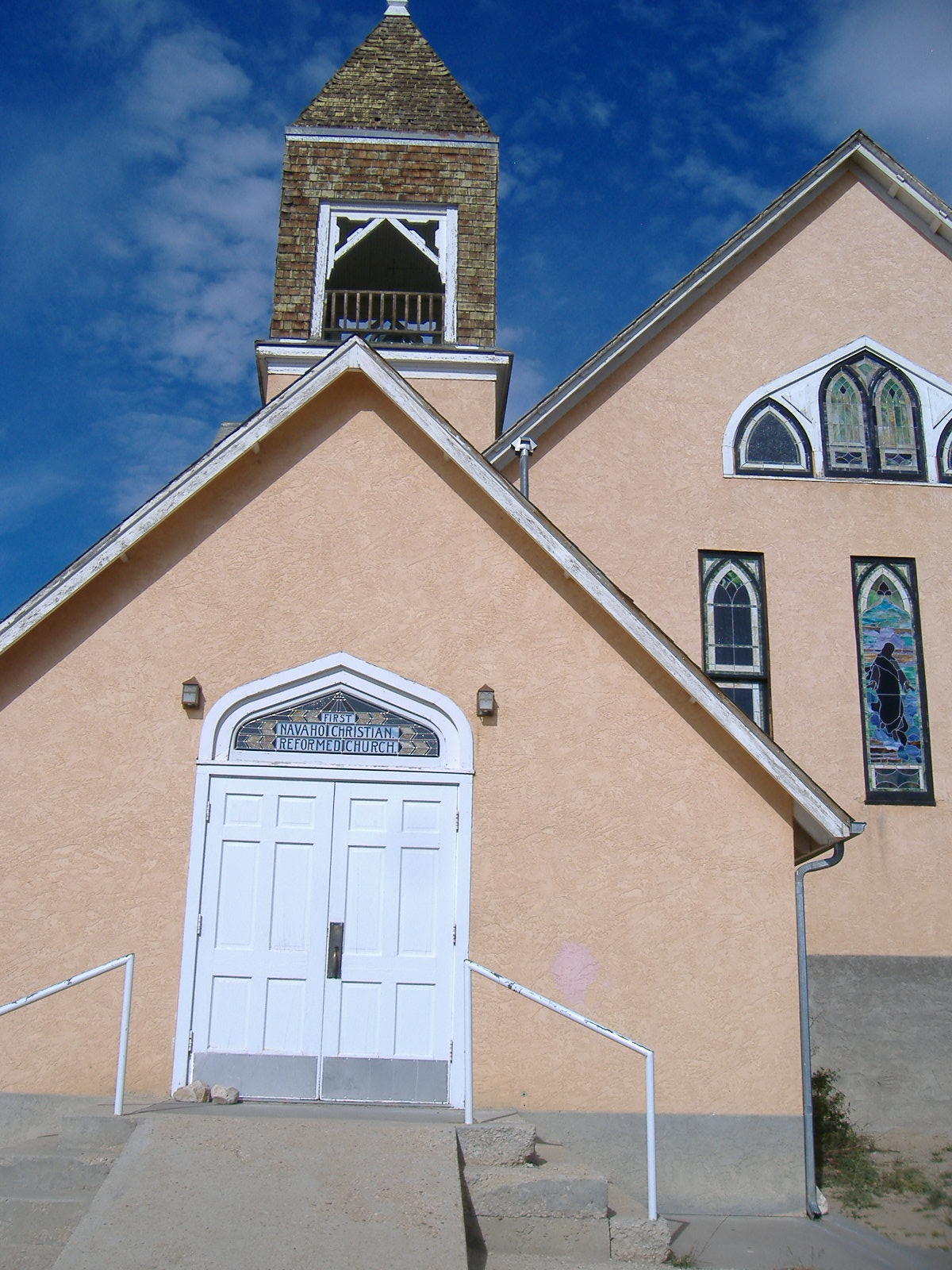 First Navajo C.R.C. doorway